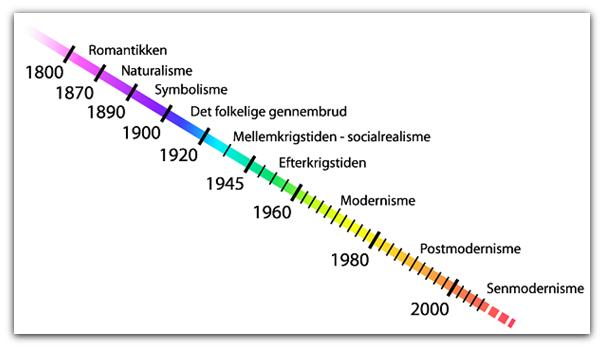 Timeline from Romanticism to Late Modernity in Denmark